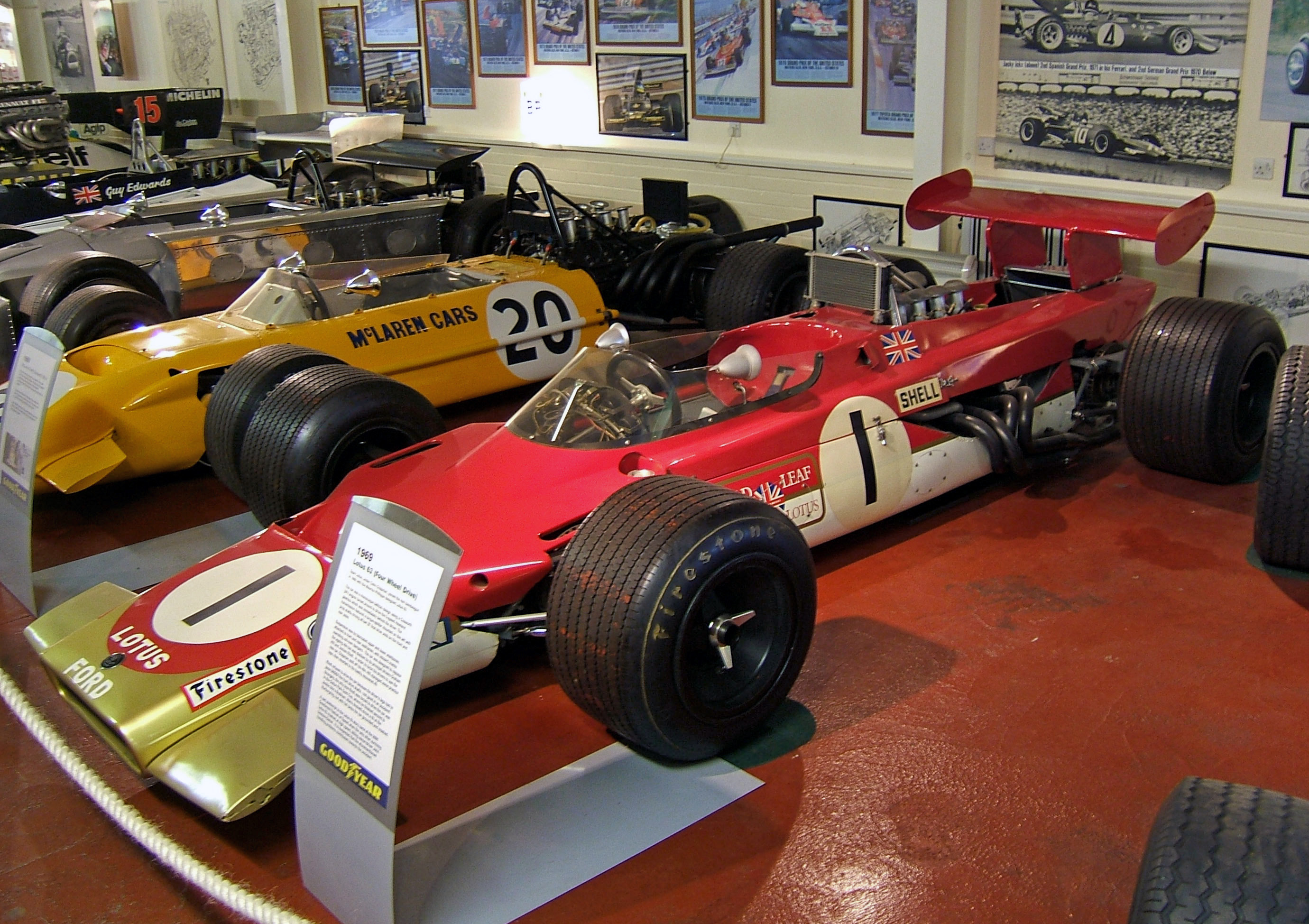 A Lotus 63, four-wheel drive Formula One car. In the Donington Grand Prix Collection museum, Leics., UK.